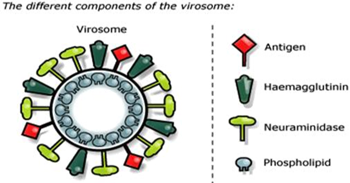 Showing different components of a virosome.